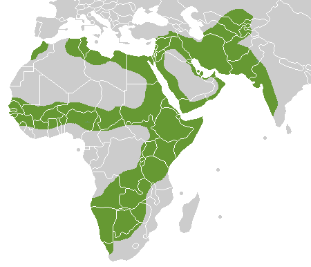 Caracal (Caracal caracal) range